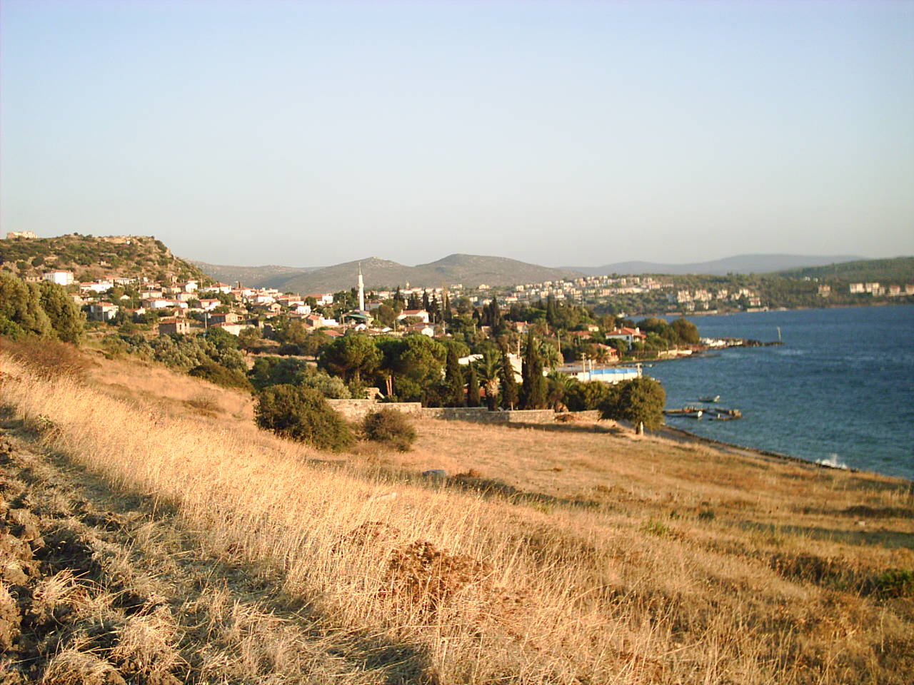 The bay at Ildırı, Çeşme district, Izmir, Turkey, formerly the bay of Erythrae